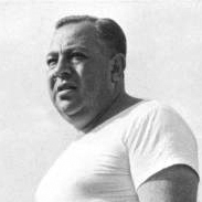 Brazil held their trainings at Hindås in Sweden before the 1958 FIFA World Cup. The picture shows the Brazilian coach Vicente Feola.